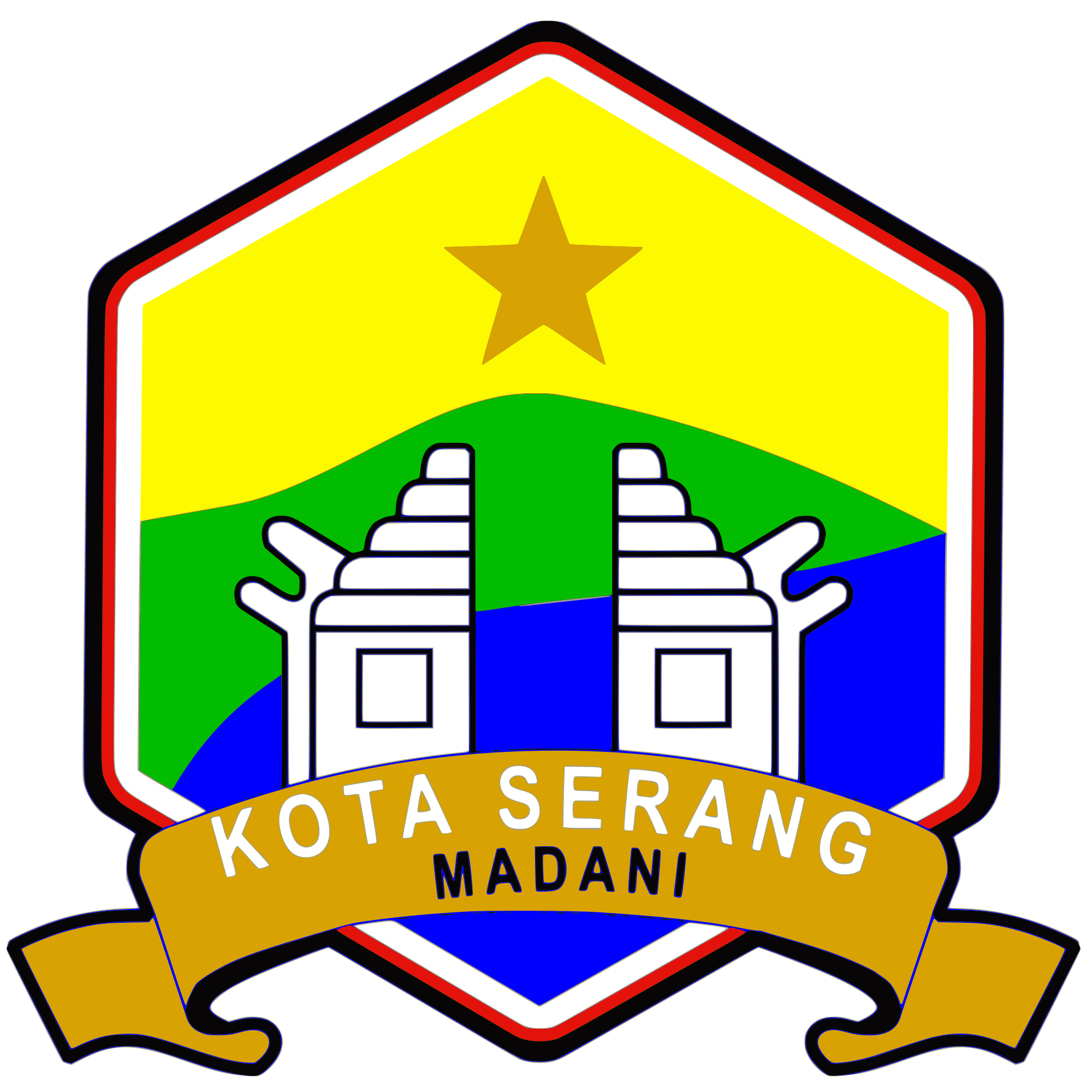 of Arms of Indonesian City of Serang